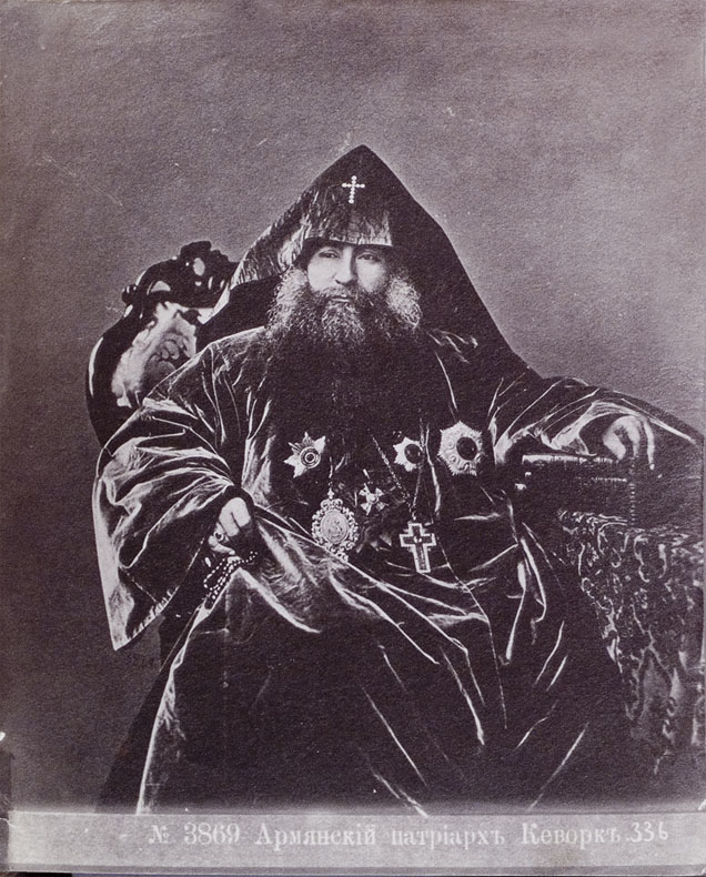 Armenian patriarch Kevork